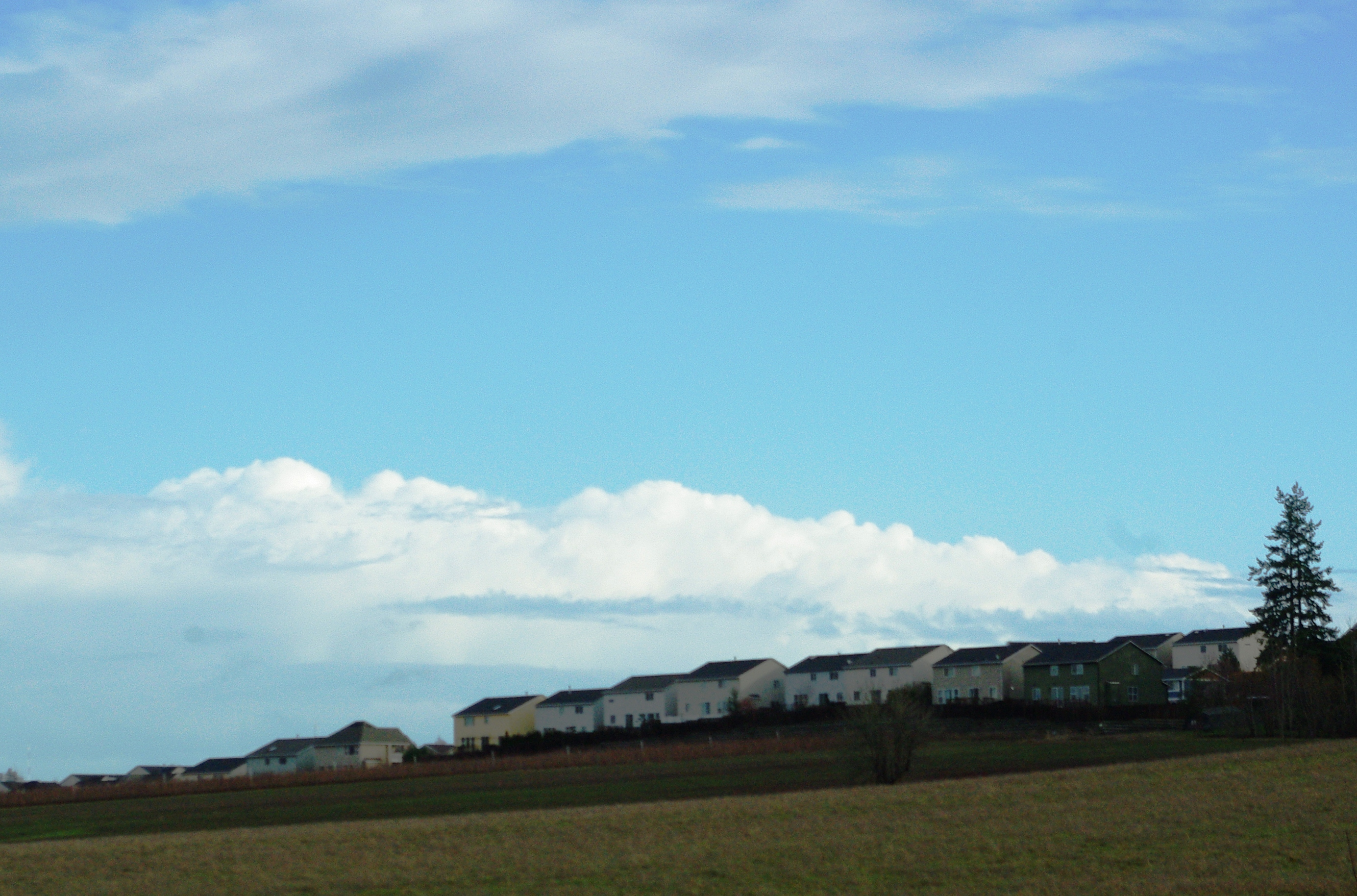 The urban growth boundary edge at Bull Mountain in the Portland metropolitan area. Farmland in foreground, urban development in background. From Roy Rogers Road near Bull Mountain Road.